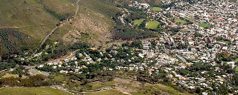 Small section of a picture only showing Higgovale from the Summit of Table Mountain